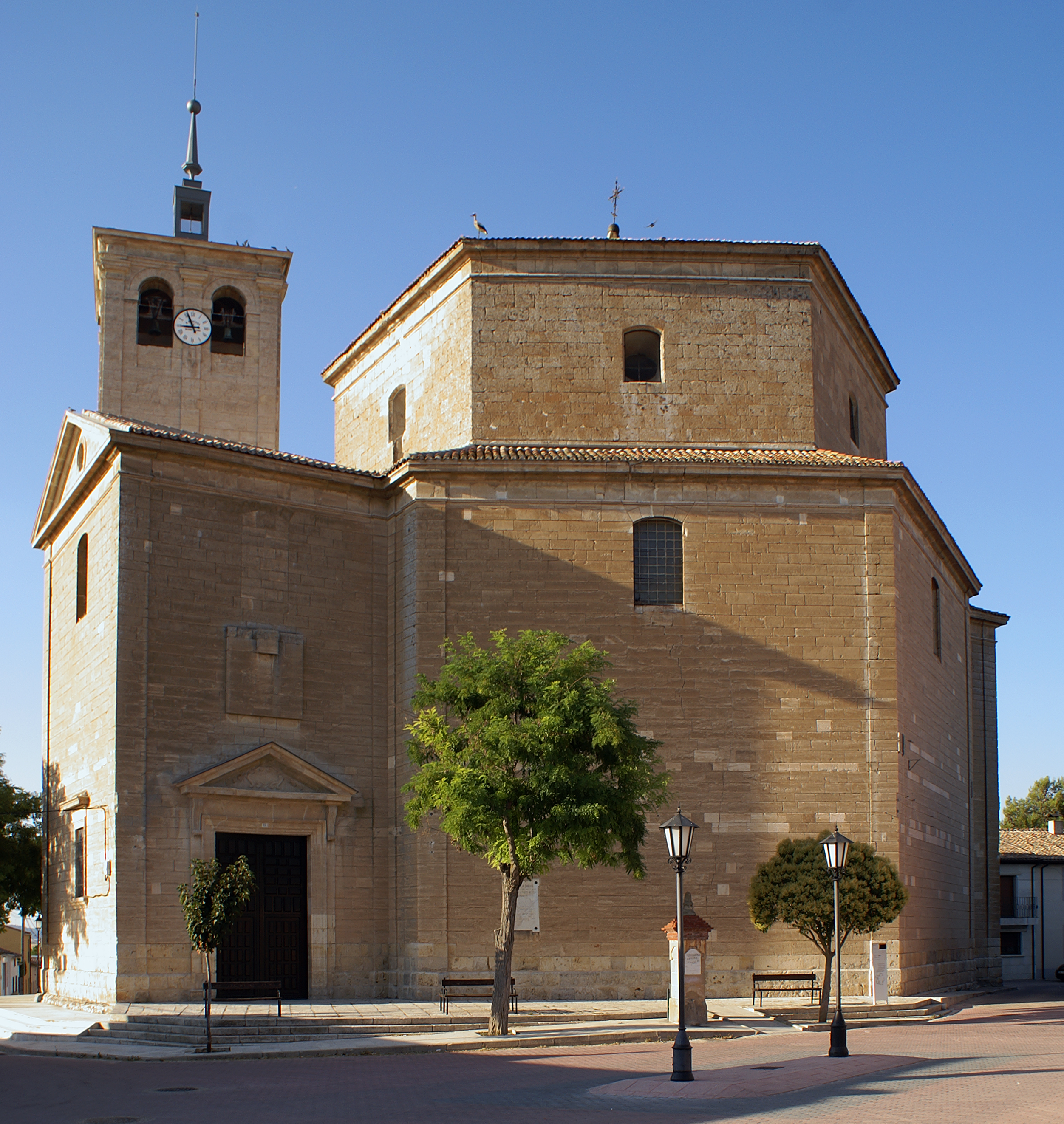 Church of Saint Peter the Apostle in Valoria la Buena, Valladolid, Spain.